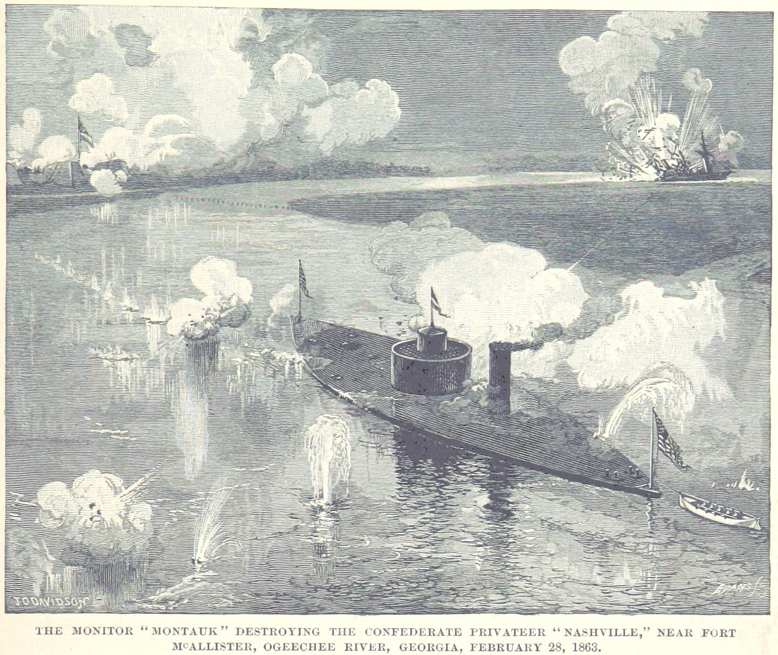 The monitor USS Montauk destroys the Confederate privateer Rattlesnake, formerly CSS Nashville